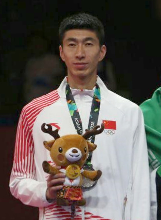 Taekwondo at the 2018 Asian Games – Men's 63 kg podium